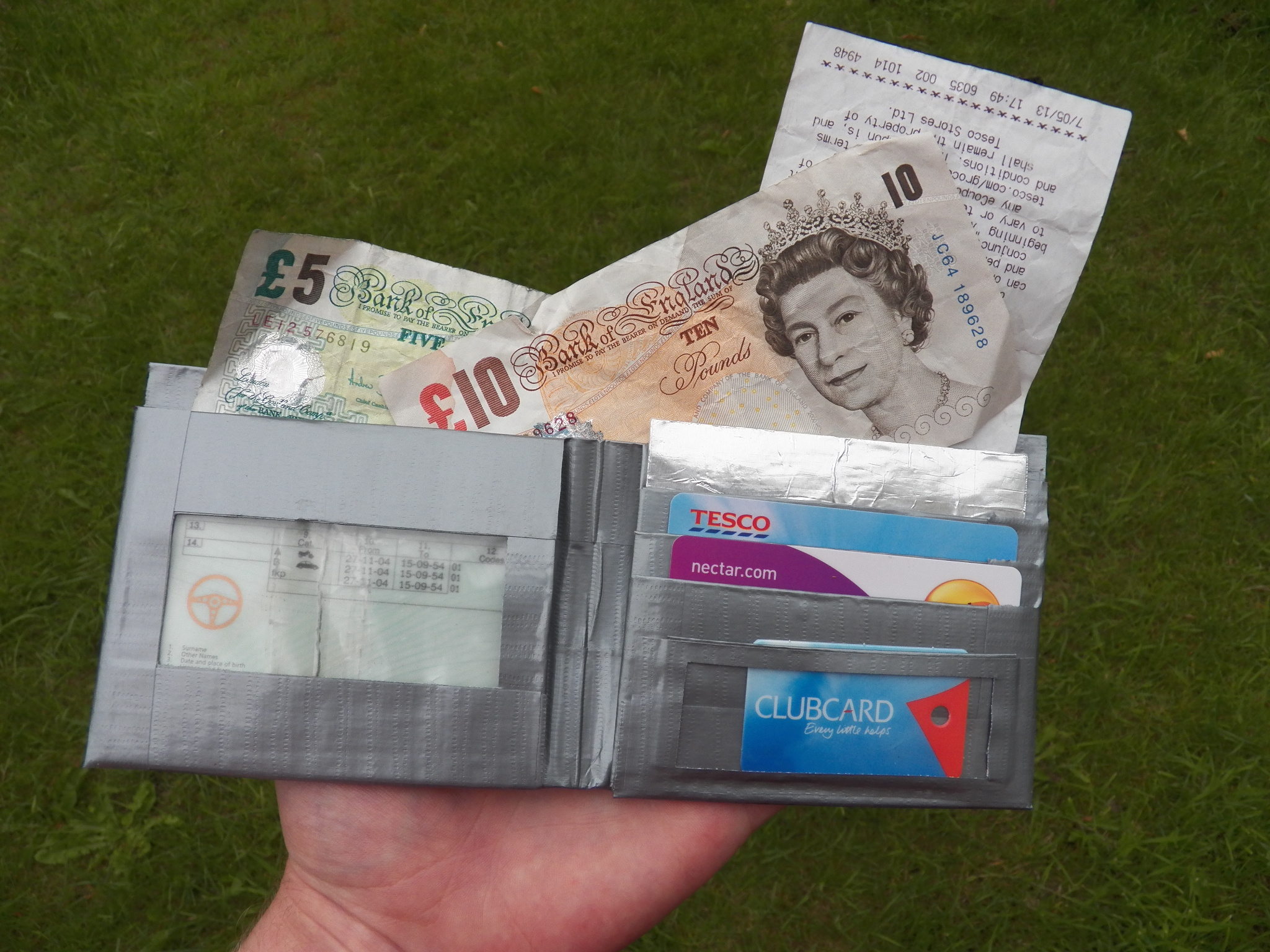 A wallet constructed entirely from tape and envelope windows.